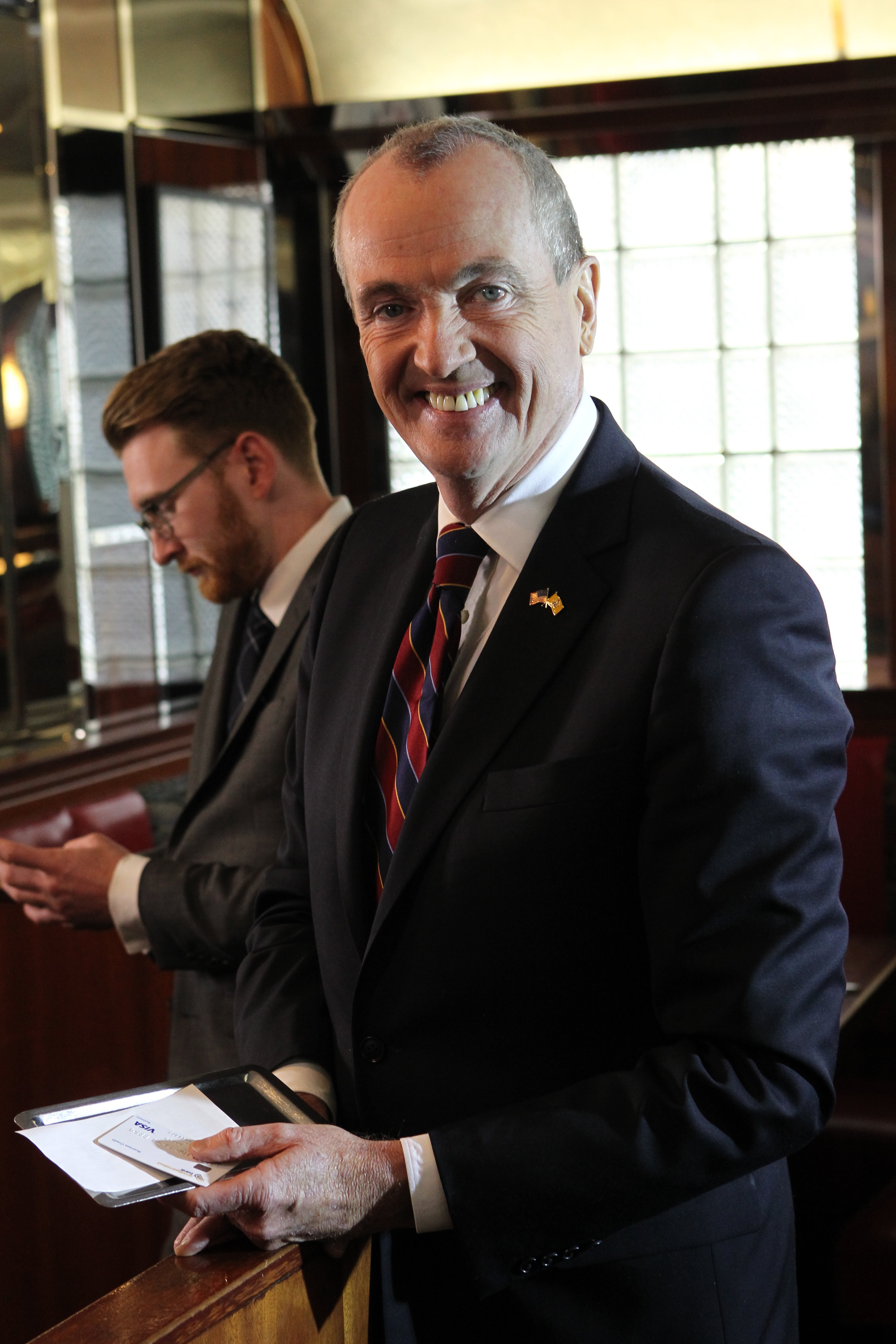 Phil Murphy for Governor